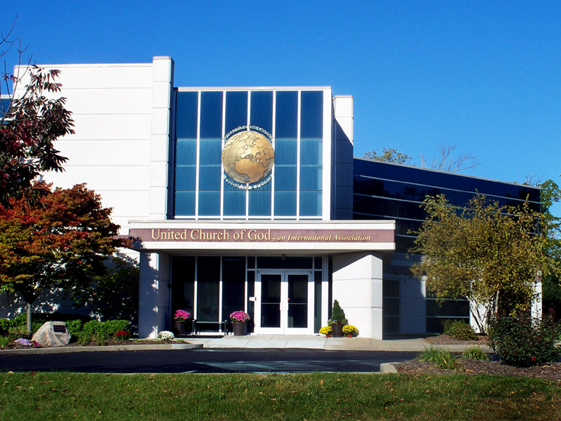 United Church of God Headquarters Building in Milford, Ohio 2013